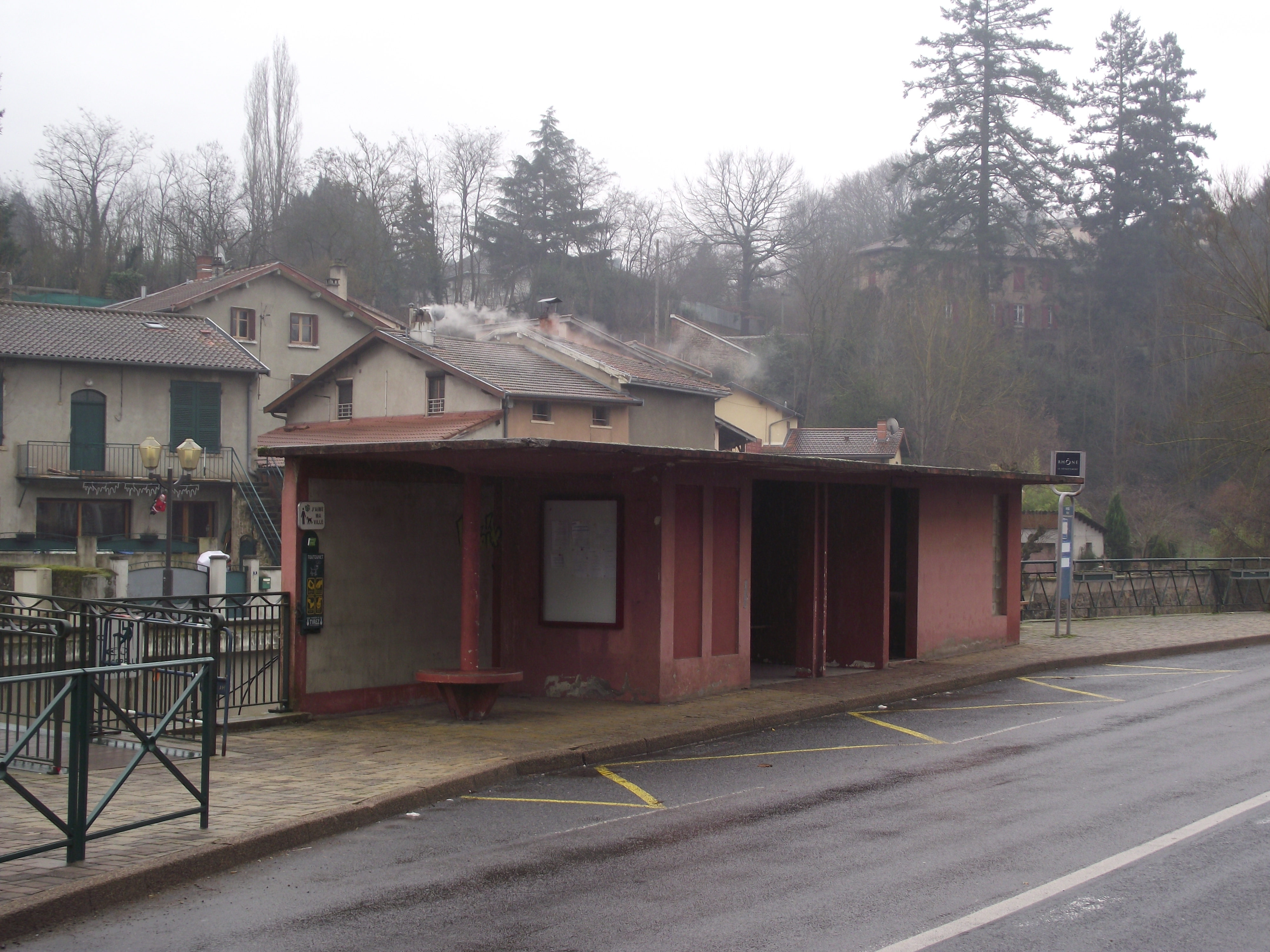 Bus stop in Sain-Bel. inside there there are urinals.